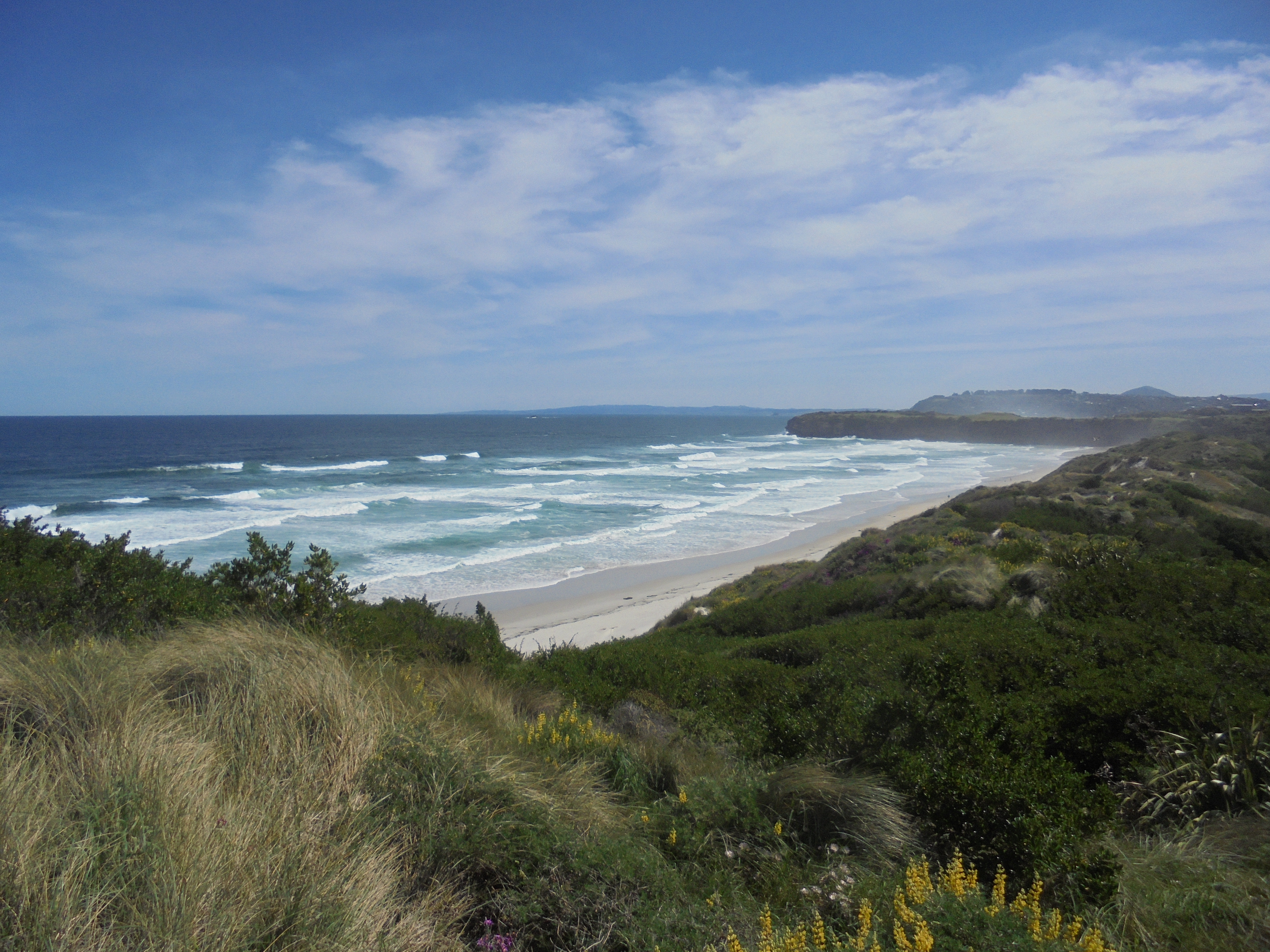 View of Tomahawk Beach, Dunedin, New Zealand, seen from the northeast, showing Lawyers Head in the background